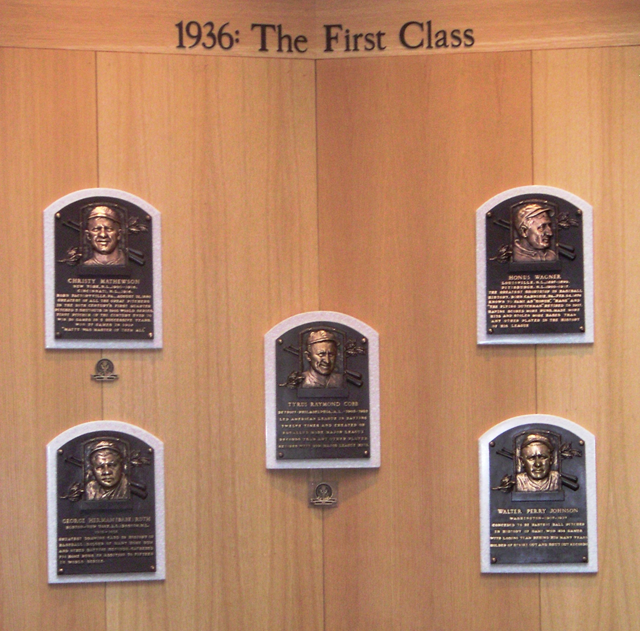 First year of inductee to the Baseball Hall of Fame, Cooperstown, NY -- Feb. 2004 Image